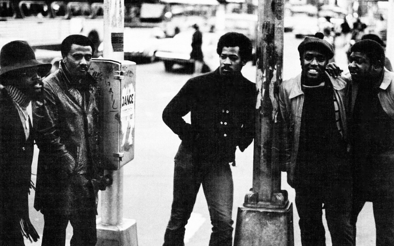 Trade ad for The Persuasions' album Street Corner Symphony. To better adapt it to his respective Wikipedia article, the ad was cropped and cleaned in a graphics editing program. The original can be viewed at the source below.